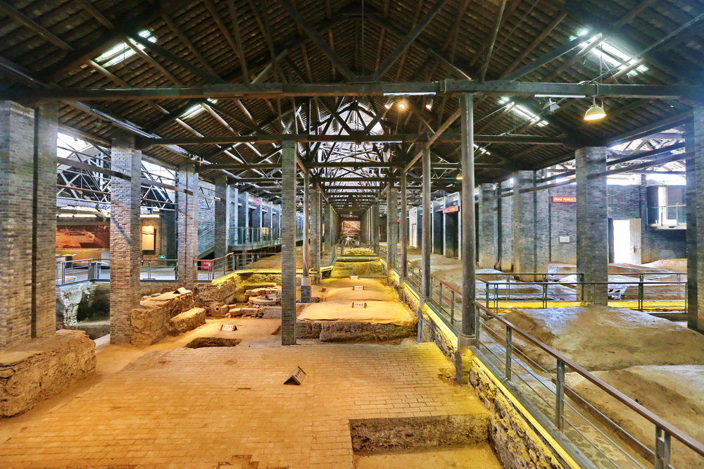 Brewery site in Shuijingjie